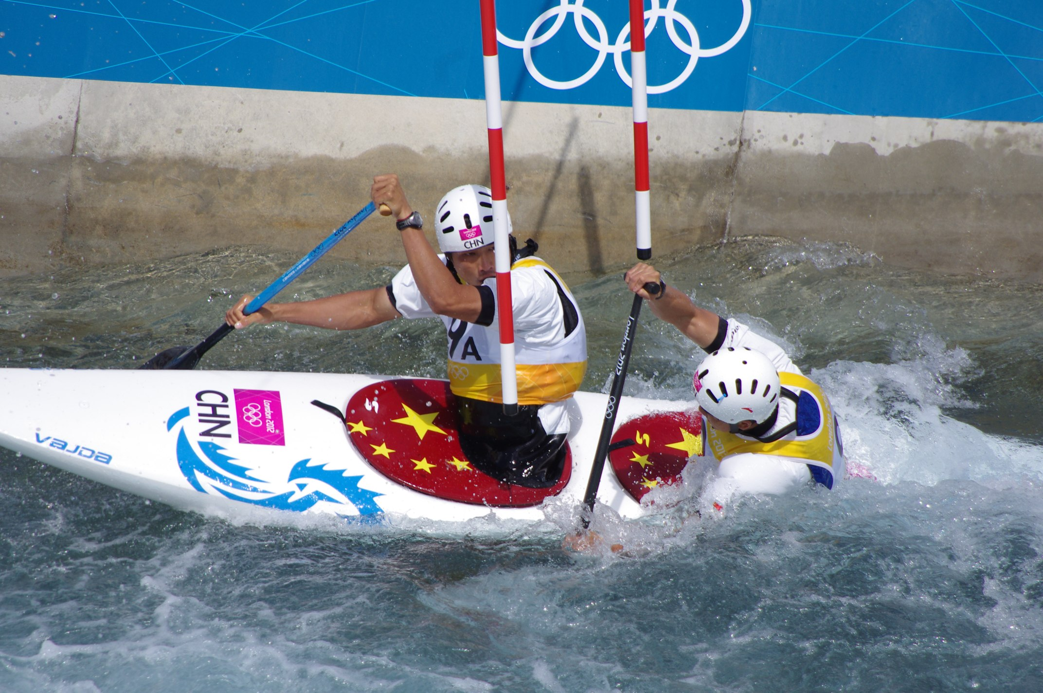 Canoeing at the 2012 Summer Olympics – Men's slalom C-2 Hu Minghai (9A, front) and Shu Junrong (9B, rear) (CHN)